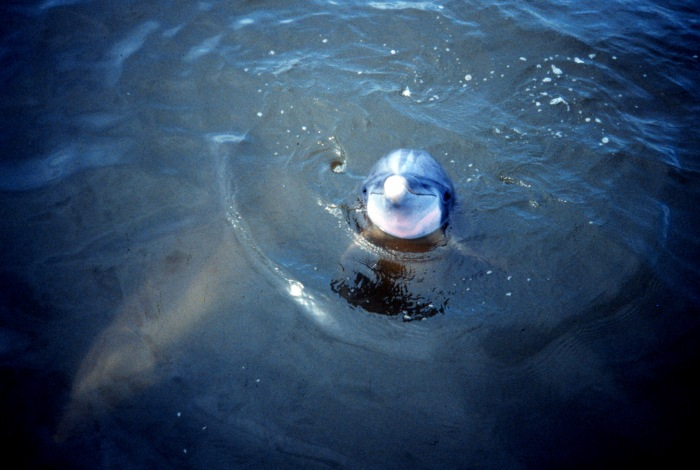 Sapelo Island National Estuarine Research Reserve. Georgia's marshes are home to many animals including bottlenose dolphins.